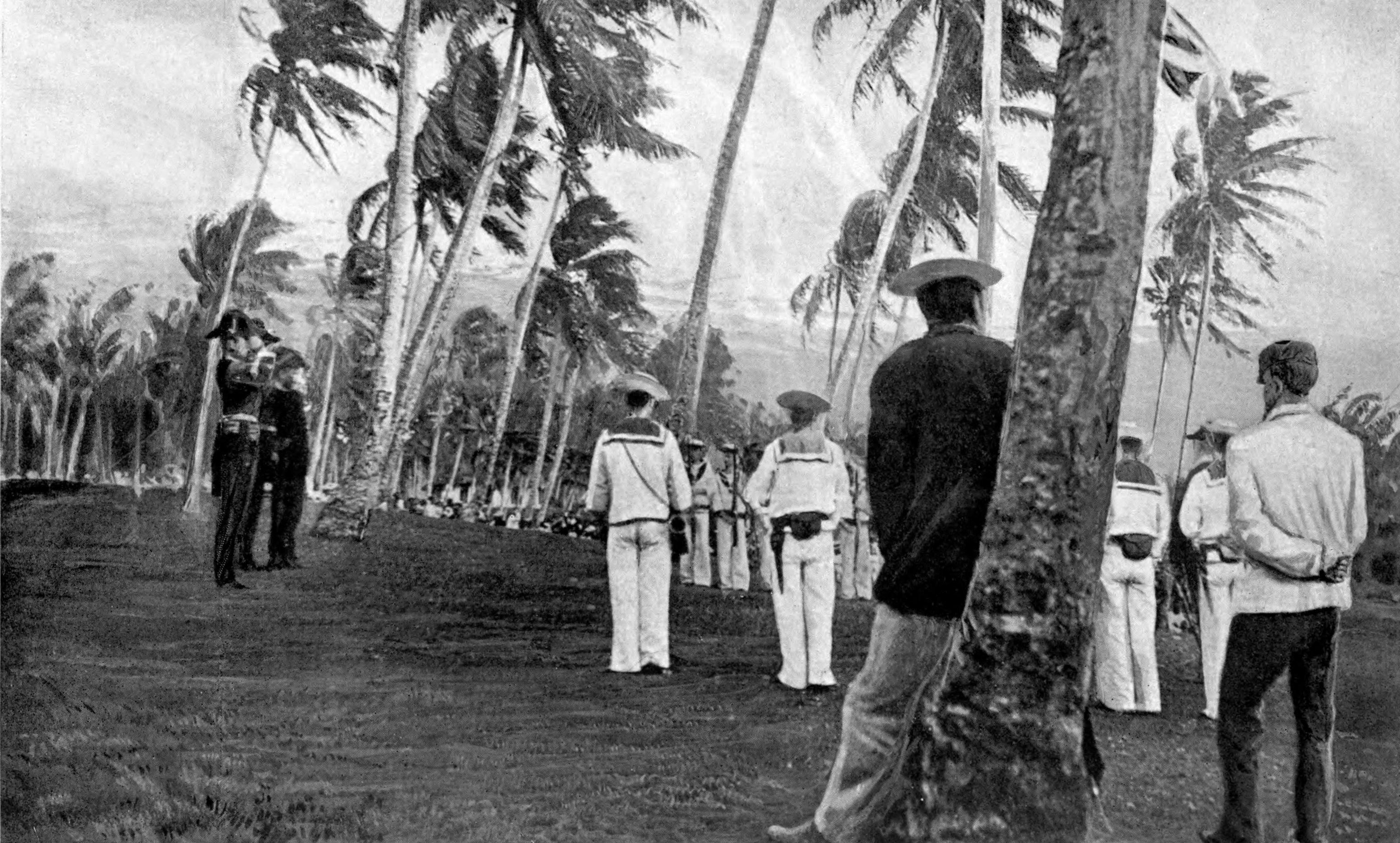 Hoisting the Union Jack over Savage Island. April 21st, 1900.